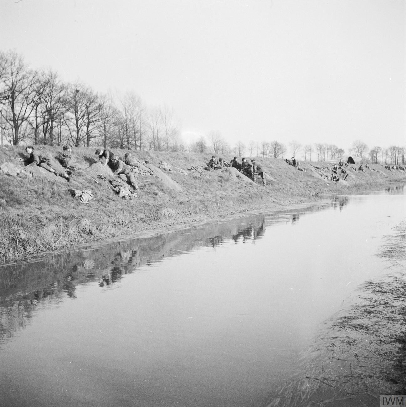 The Allied Campaign in North-west Europe, 6 June 1944 - 7 May 1945 Crossing the Rhine 24 -31 March 1945: British glider troops of the Royal Ulster Rifles, 6th Airborne Division digging in on the banks of the River Issel after landing.